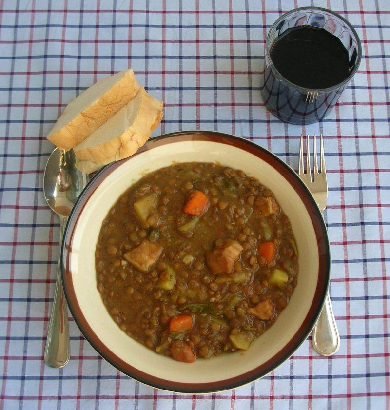 Catalan lentil soup